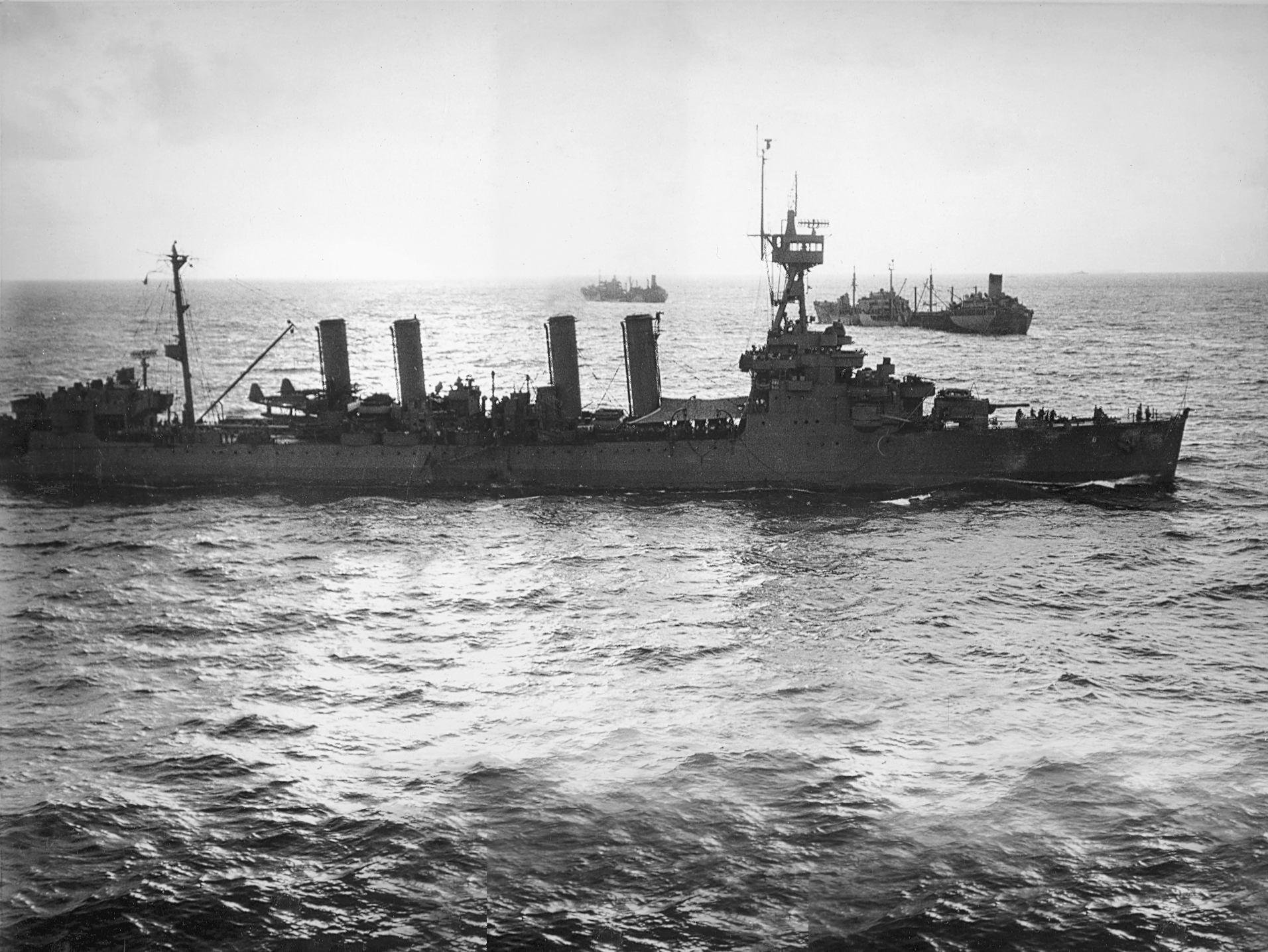 The U.S. Navy light cruiser USS Detroit (CL-8) and two fleet oilers in the Pacific Ocean in 1945. Detroit cleared San Francisco, California (USA), on 16 January 1945, and arrived at Ulithi on 4 February for duty with the 5th Fleet. She acted as flagship for the replenishment group serving the Fast Carrier Task Force until the end of the war, and entered Tokyo Bay on 1 September. Detroit was one of two ships present at both Pearl Harbor on 7 December 1941 and at the signing of the Japanese surrender (the other being USS West Virginia (BB-48)).